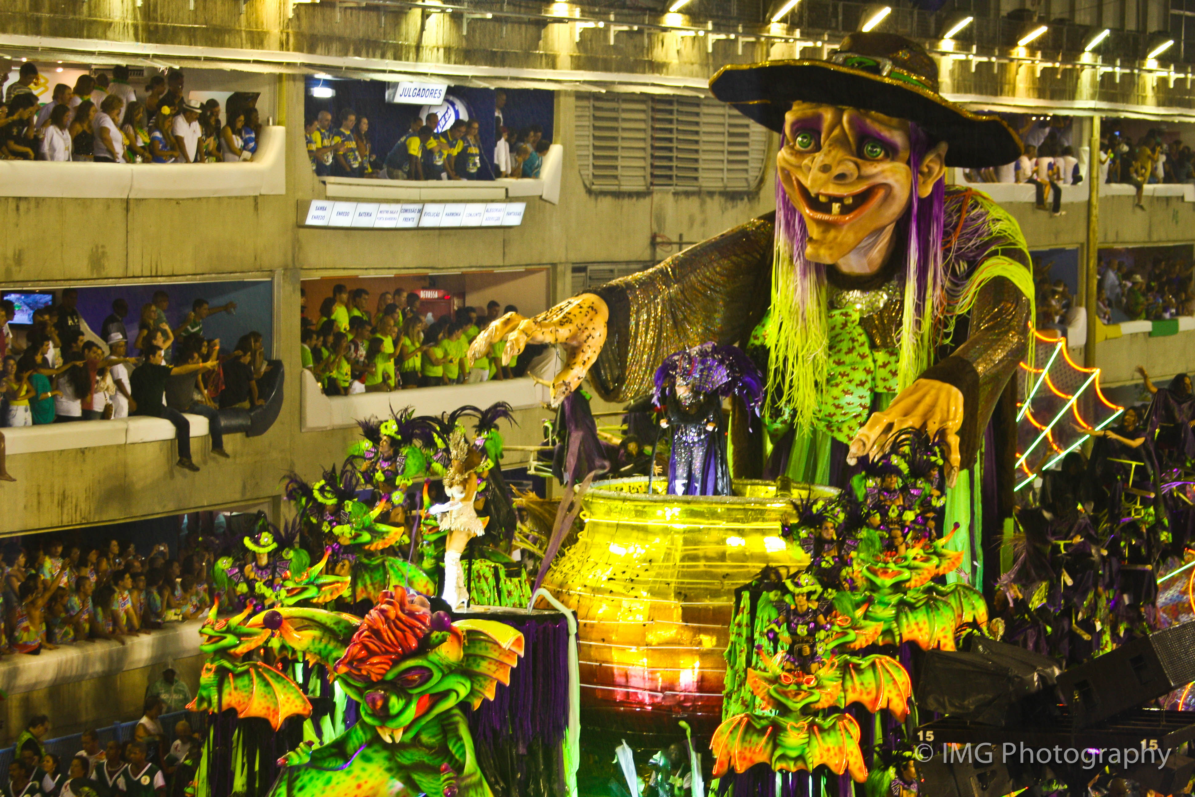 Opening Float:The Enchanting Witch's Island